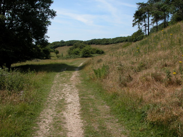 Ringstead Downs. This chalk downland is now a nature reserve.